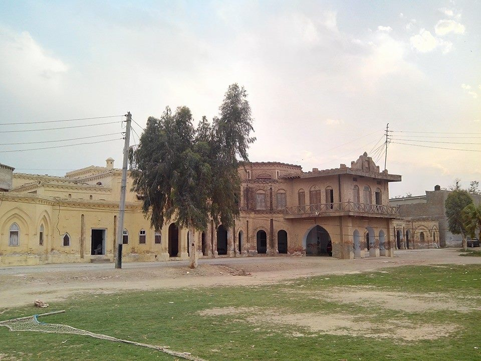 ALLAH NAWAZ CASTLE OF THE NAWAB OF DERA